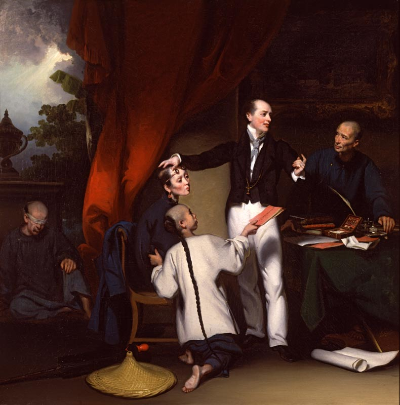 This portrait shows Dr. Colledge after he has completed an ophthalmic operation on a Chinese woman, explaining the outcome to his servant, who acts as an interpreter. The woman's son kneels in front, presenting a letter of thanks.